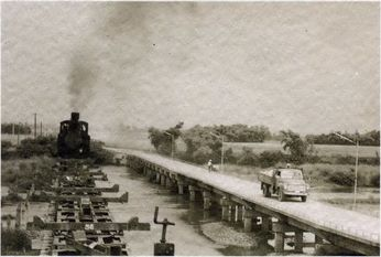 Luodong forest railway train on the crooked Tsaiqiao bridge